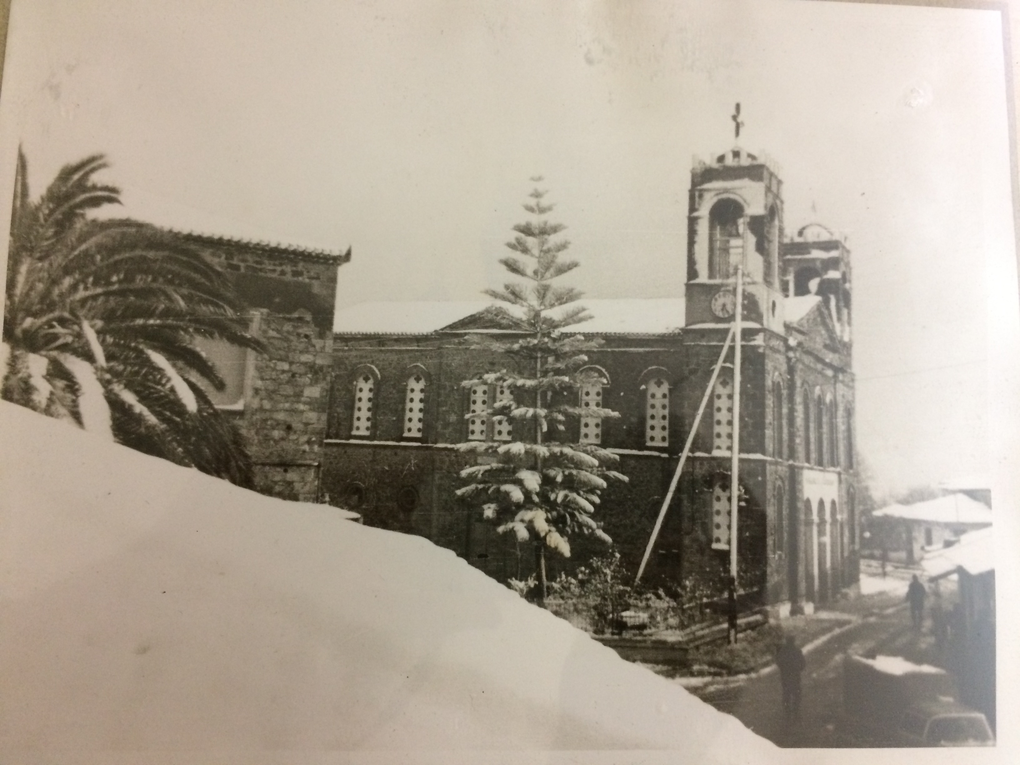 St. Athanassios church in Myrtia village, in Pyrgos, Ilia, Peloponese, Greece, with 20 cm of unpredicted snow on the wedding day of my father's late second brother Andreas. Sunday, January 7, 1968. The one that writes down these information was only three months old in her mother's womb.